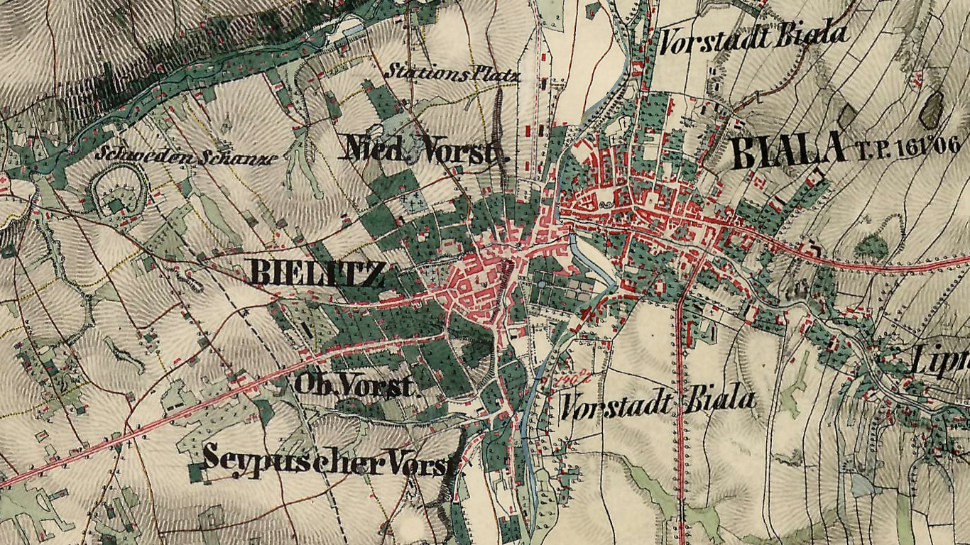 Austrian topographic map of Bielsko and Biała (Bielitz and Biala).